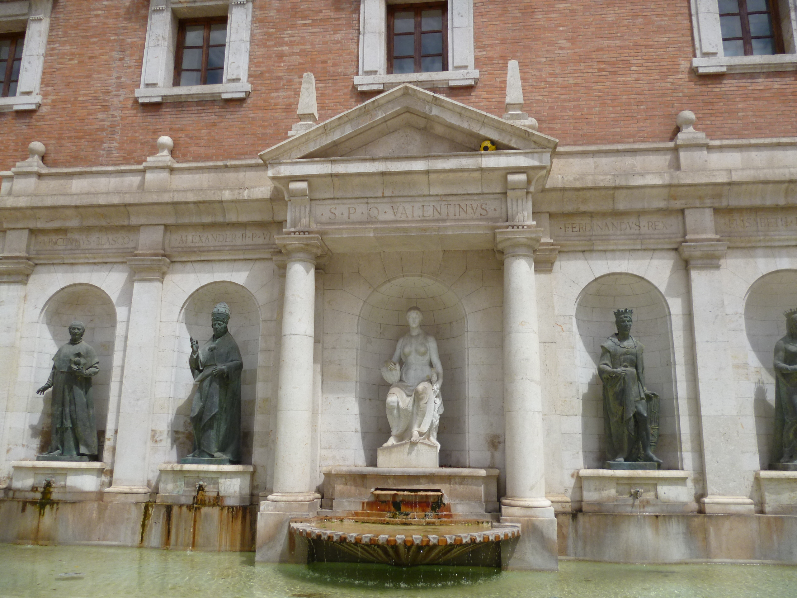 Patriarca's square fountain in Valencia